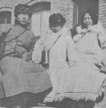 Kim Kyu-sik and his son Jin-dong, Cousin Kim Eun-sik